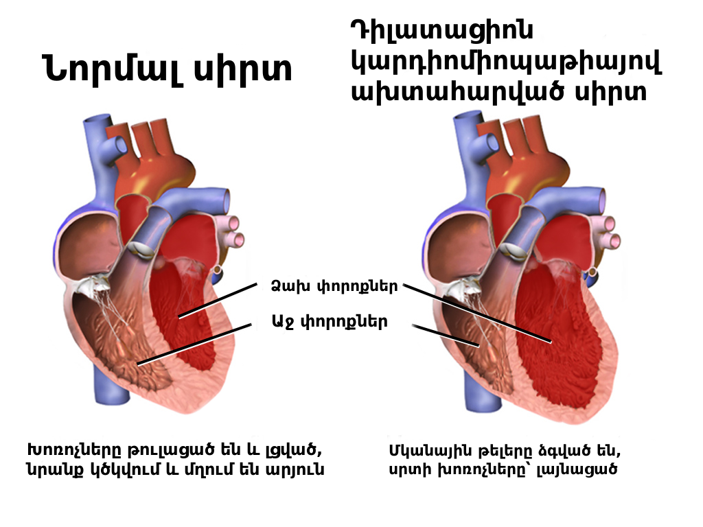 Cardiomyopathy Dilated Armenian